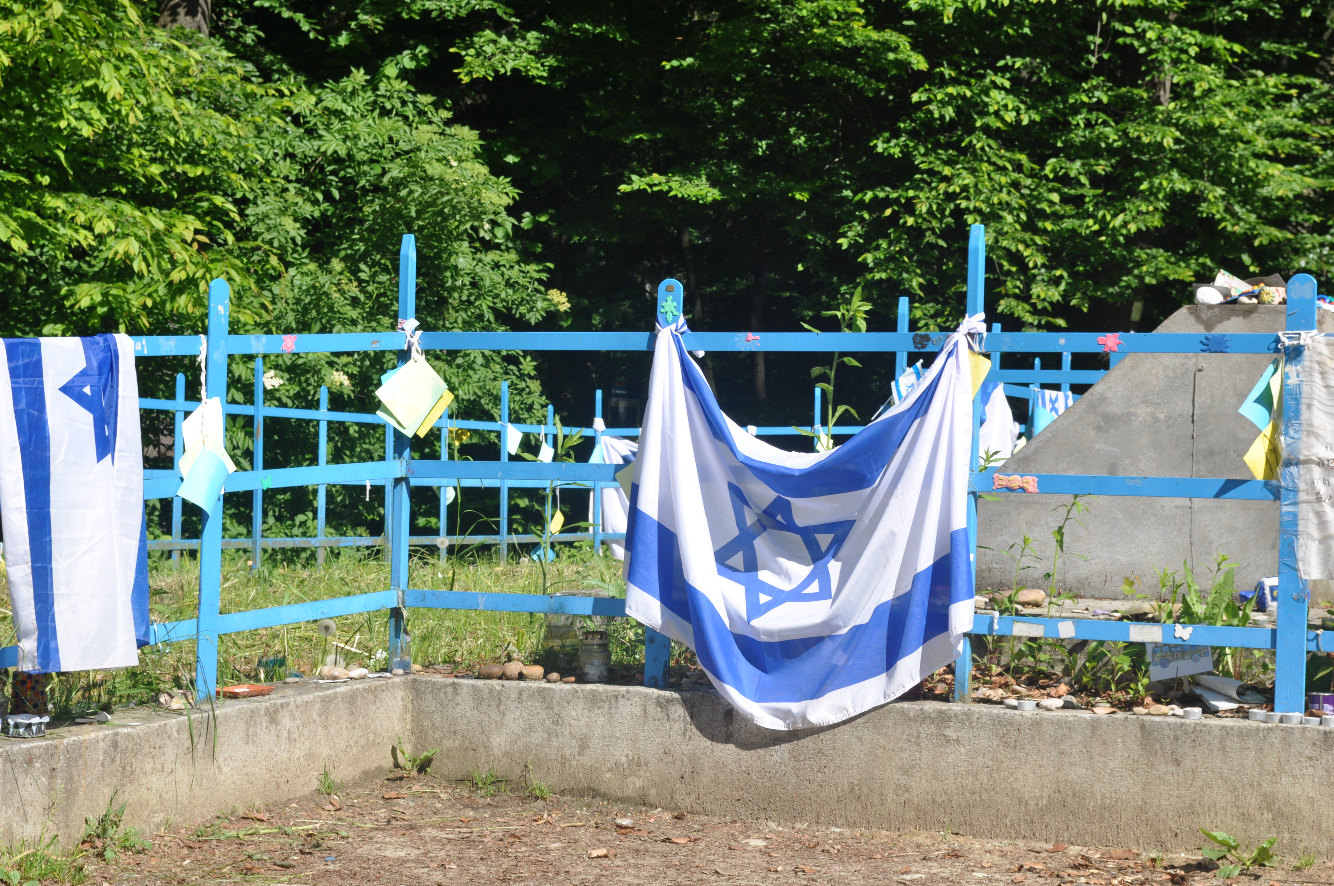 Buczyna Forest at Zbylitowska Gora. Poland. World War II cementery of Jews and Poles, German victims.